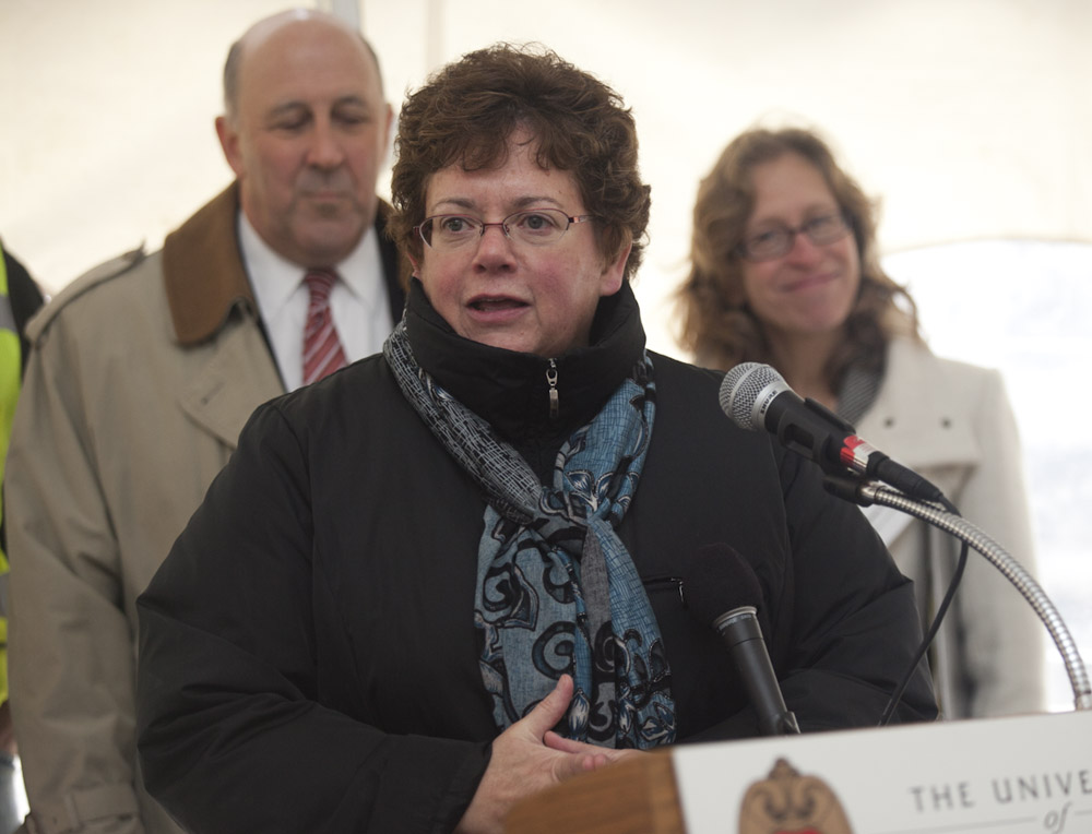 University of Wisconsin Chancellor Carolyn “Biddy” Martin speaks at the Wisconsin Energy Institute groundbreaking in Madison, Wisconsin, on Wednesday, November 24, 2010. Standing behind her are Governor Jim Doyle and Dean Molly Jahn of the College of Agricultural and Life Sciences, UW-Madison. Photographer: Matthew Wisniewski, Great Lakes Bioenergy Research Center